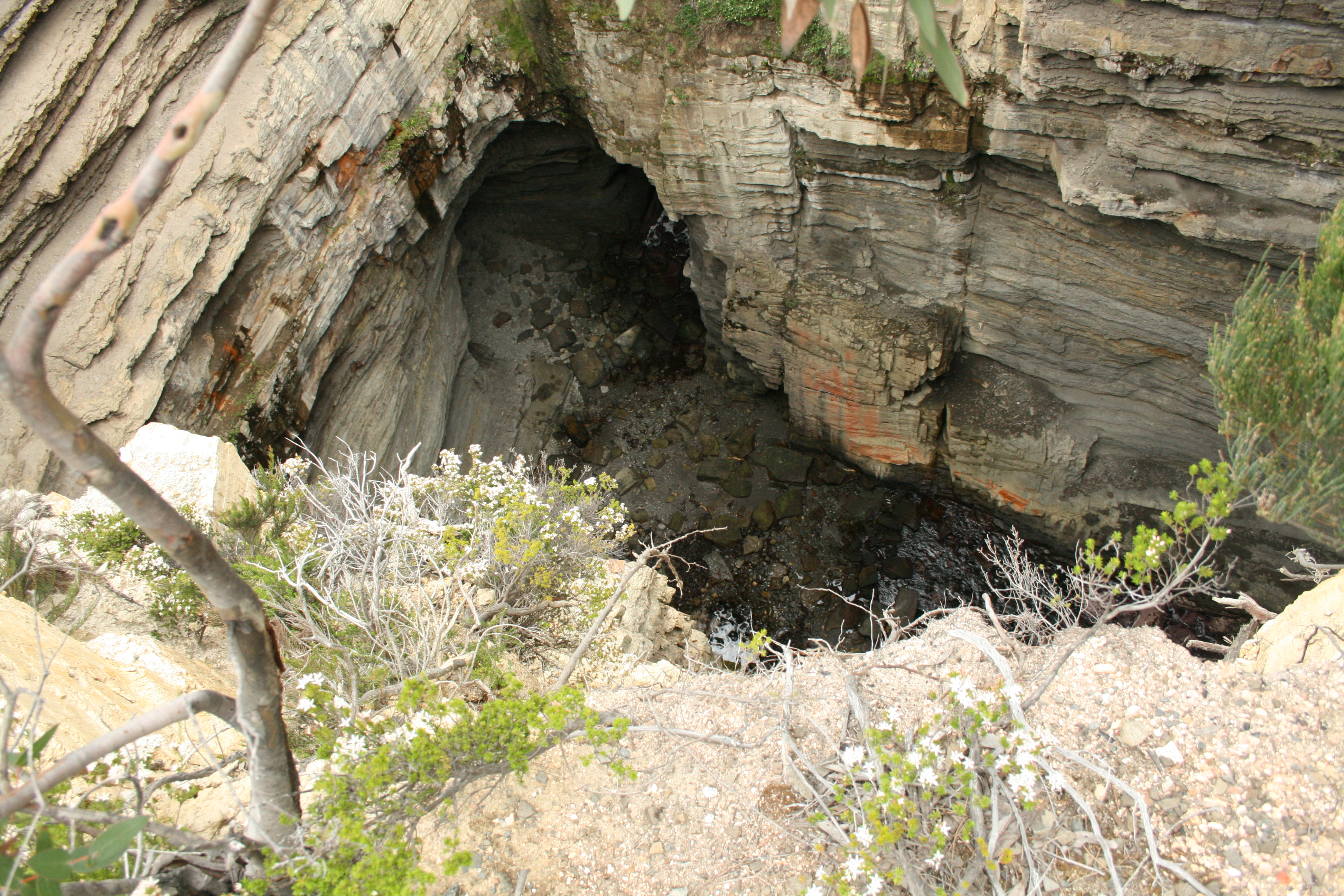 Devil's Kitchen, Tasman National Park, Tasmania, Australia